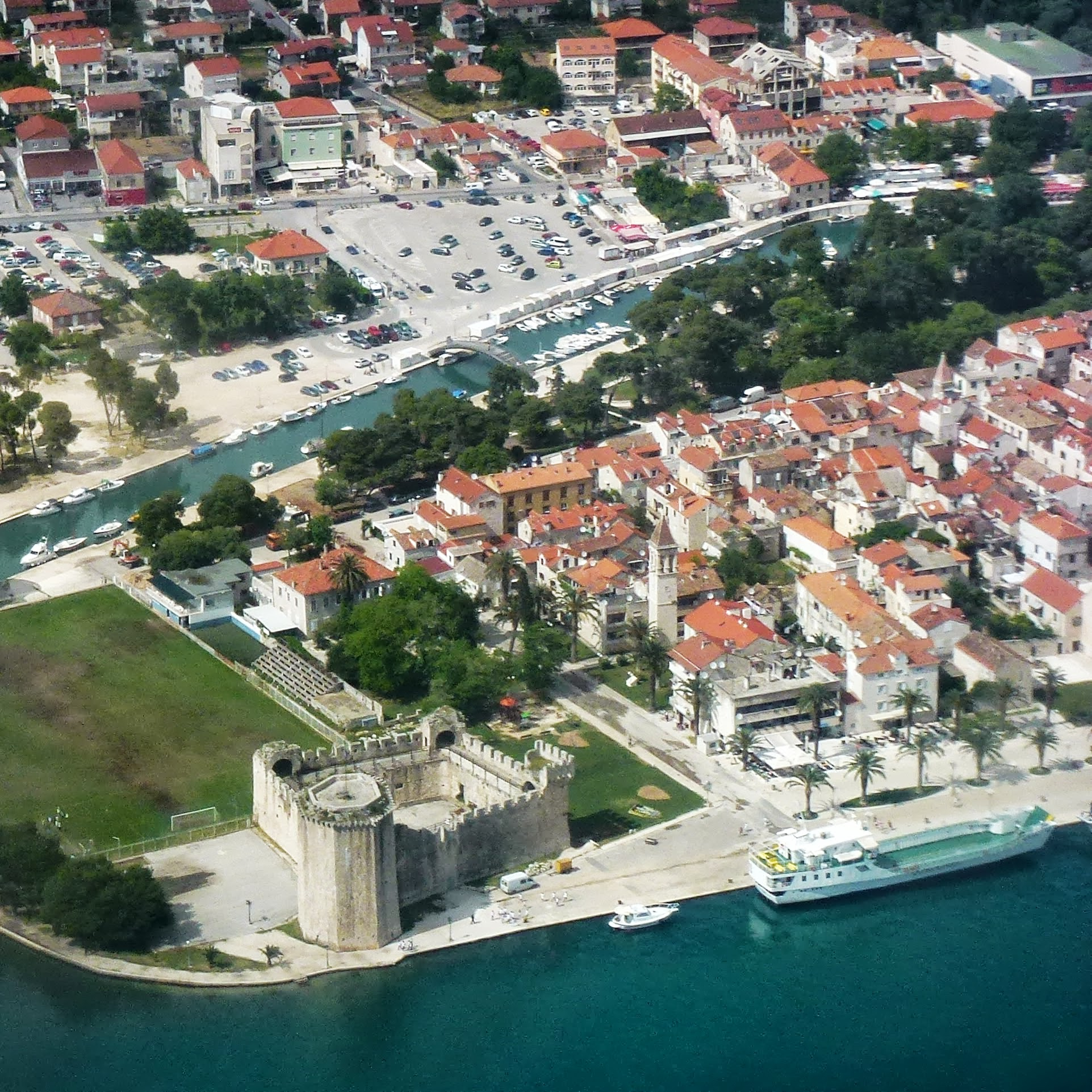 Trogir, Croatia